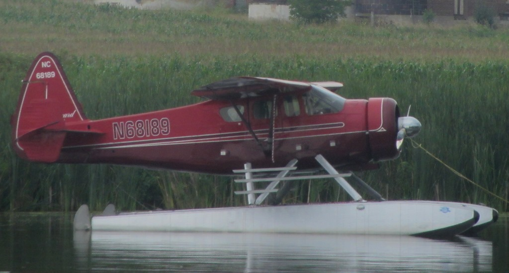 Howard NH-1